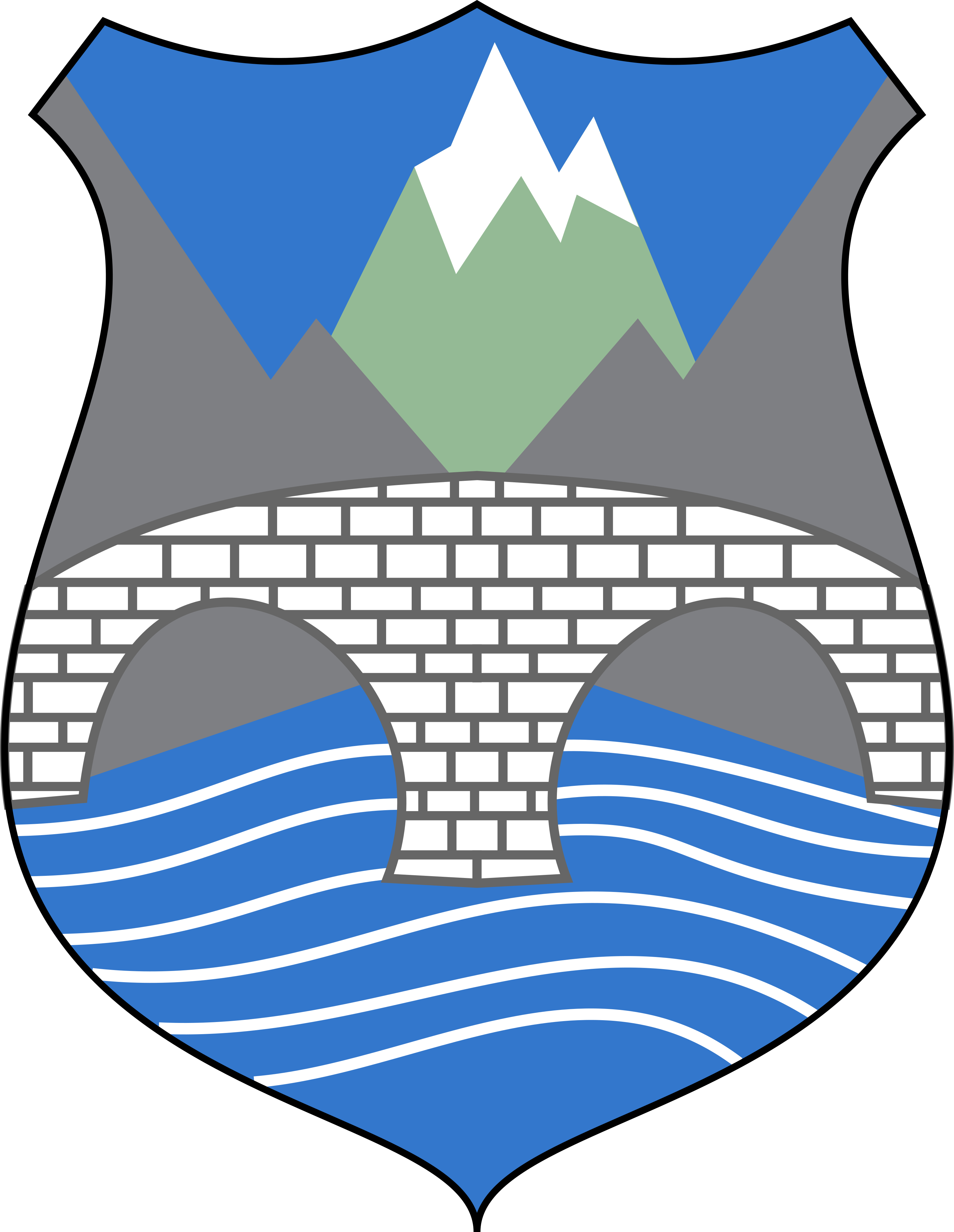 Coat of Arms of the old municipality of Rostushe